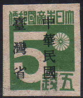 Japanease postage stamps with overprint,reading"Rep.of China Taiwan" temporary Issue.